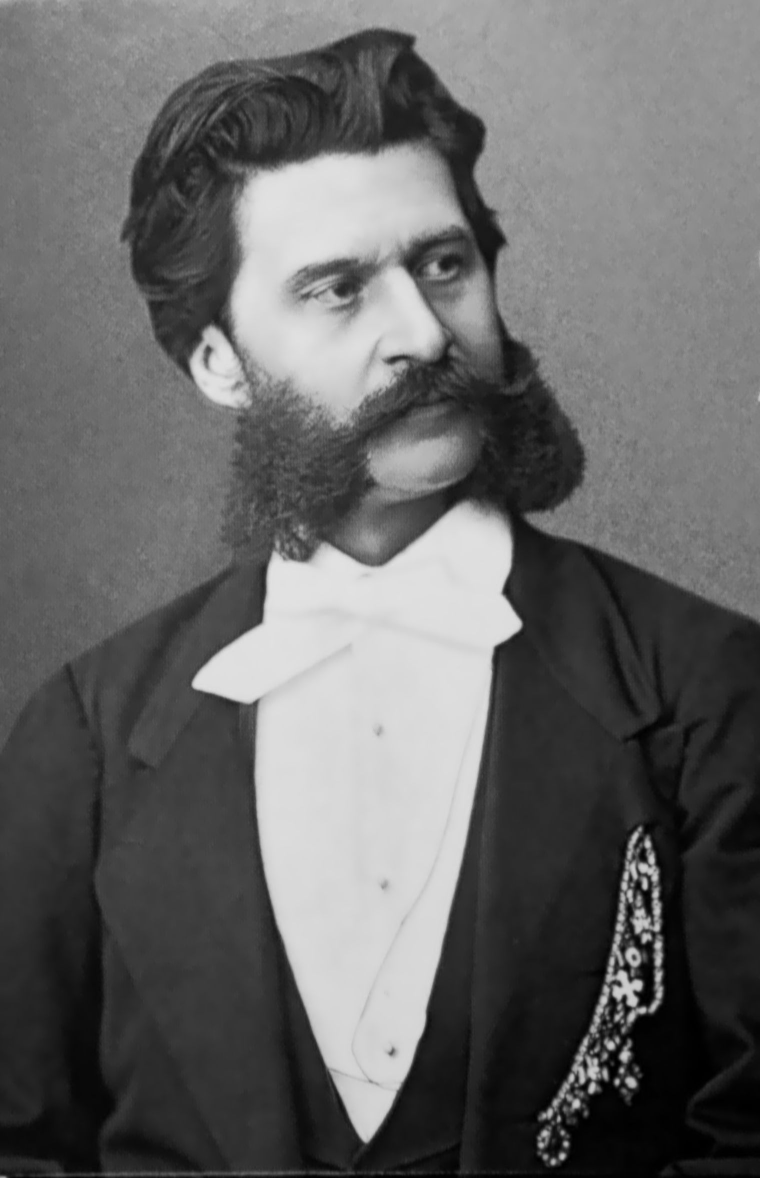 Johann Strauss Jr Paris